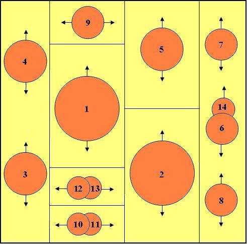 Dispositie klokken Domtoren Utrecht